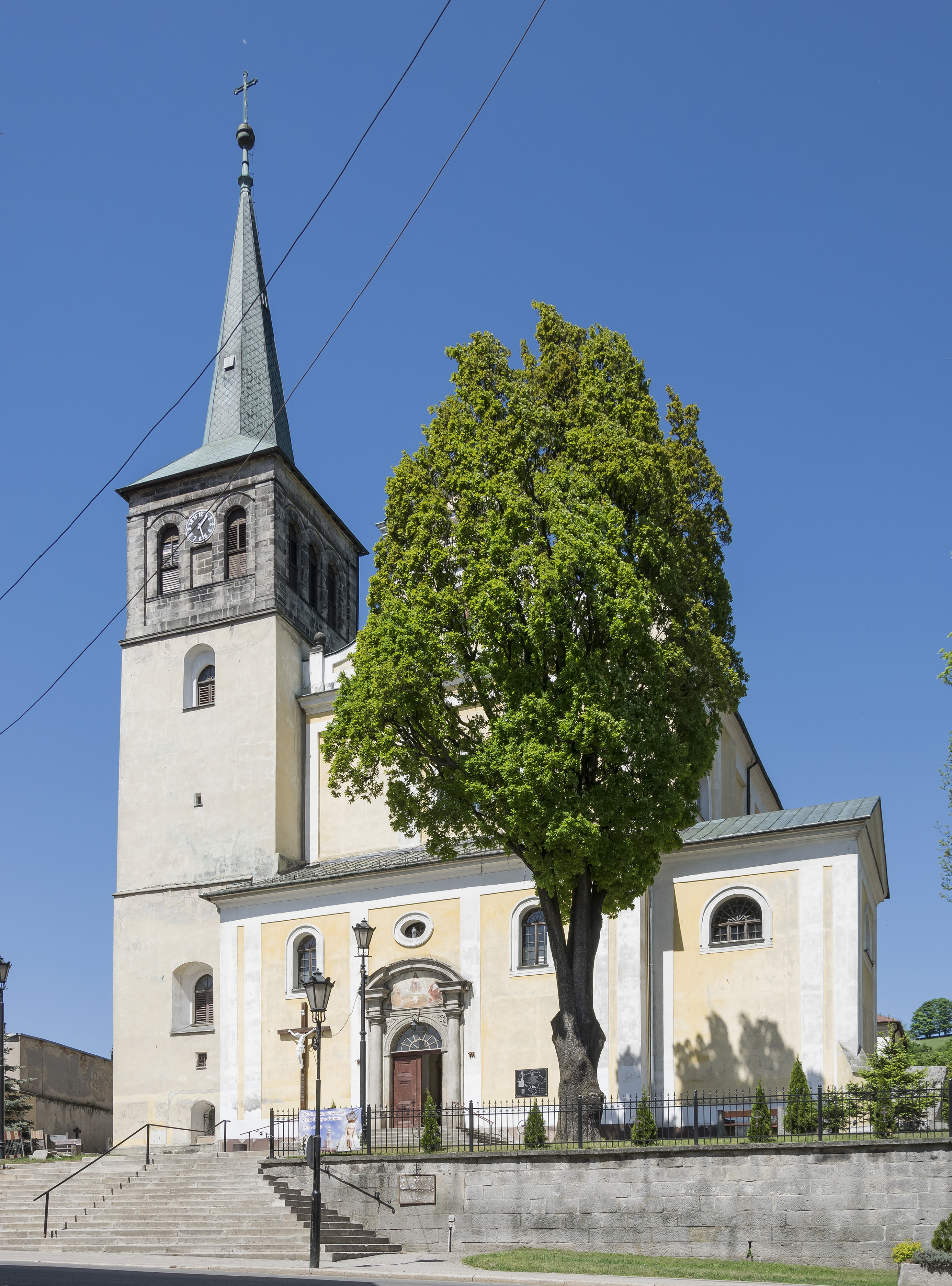 Saints Peter and Paul church in Duszniki-Zdrój